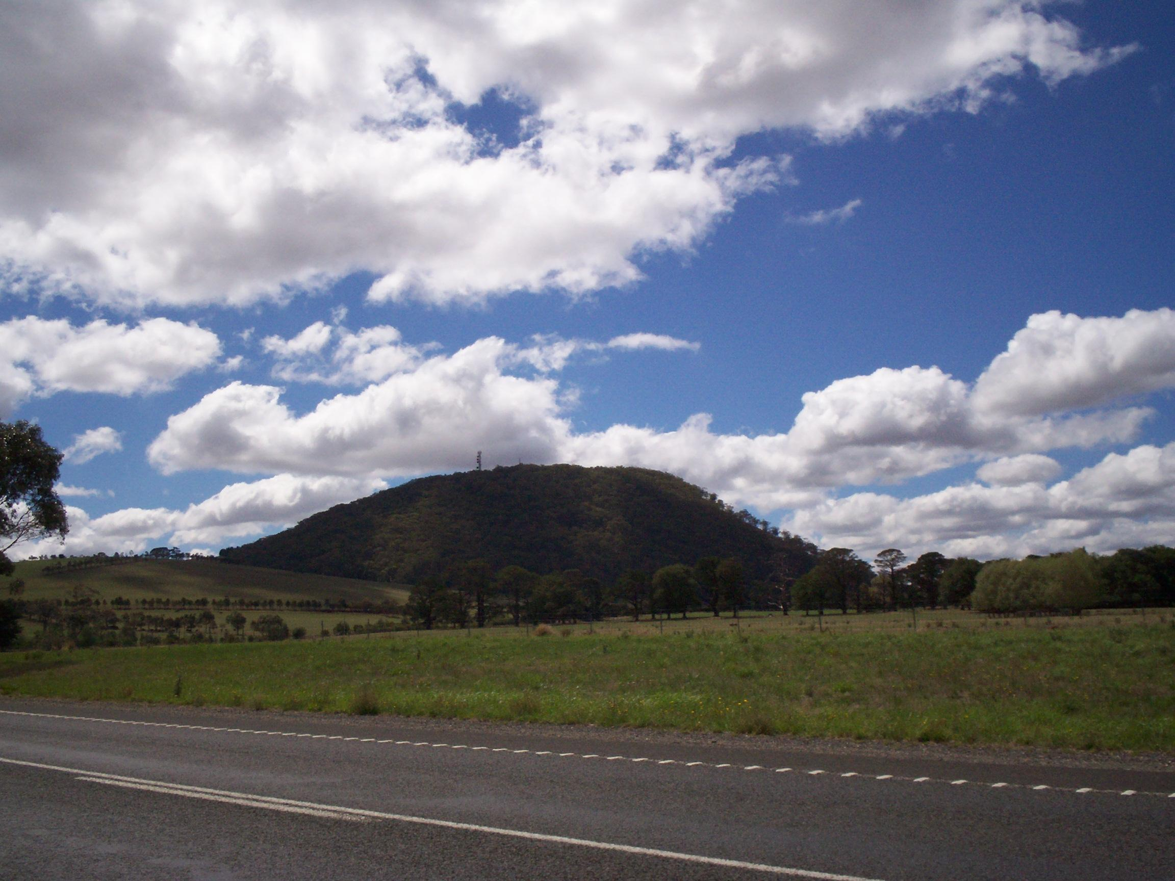 Mount Buninyong, Victoria, Australia. Photograph taken by myself.